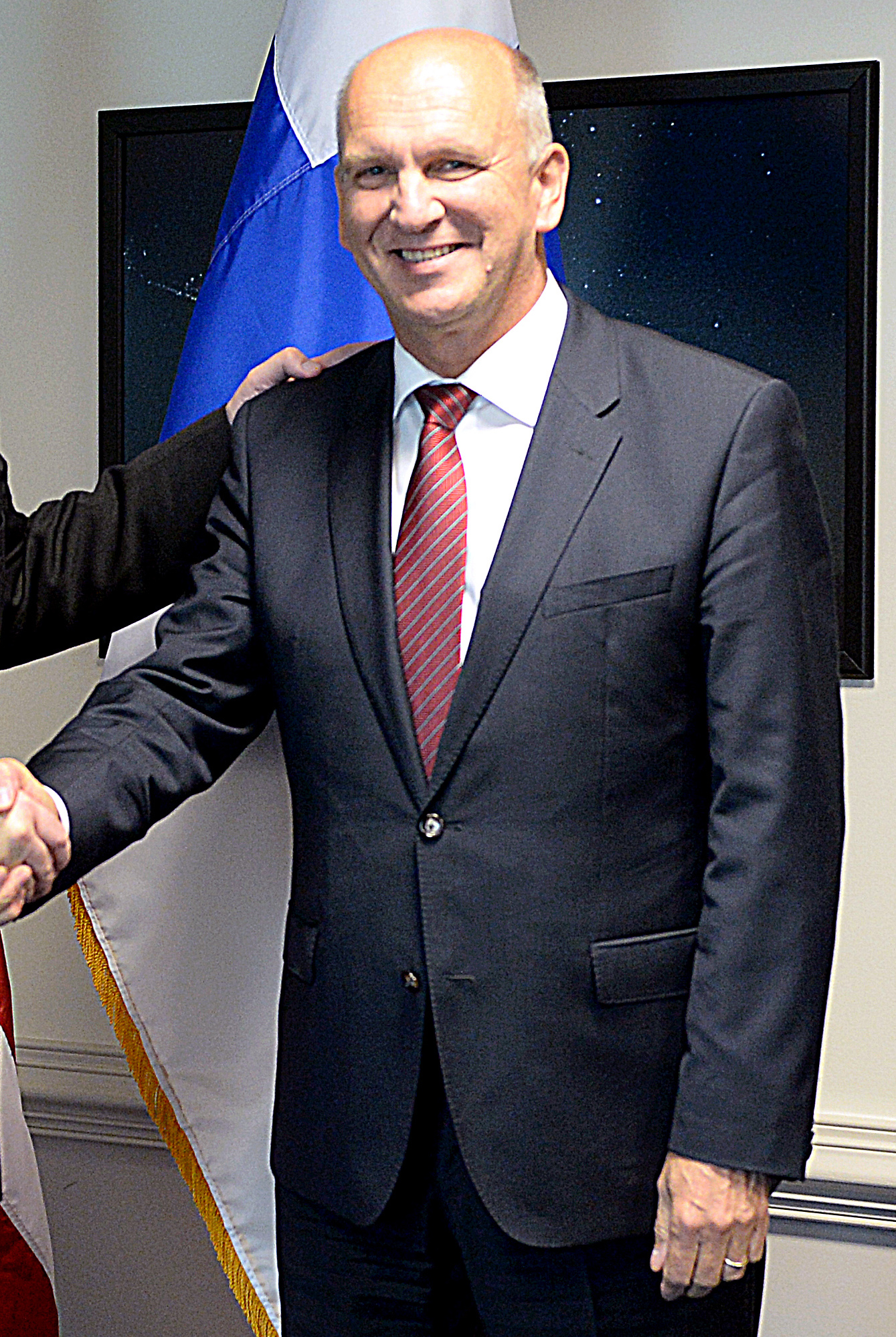 Deputy Secretary of Defense Bob Work shakes hands with Finland's Ministry of Defense Permanent Secretary Arto Räty at the Pentagon, Oct. 14, 2015.(DoD photo by U.S. Army Sgt. First Class Clydell Kinchen)(Released)